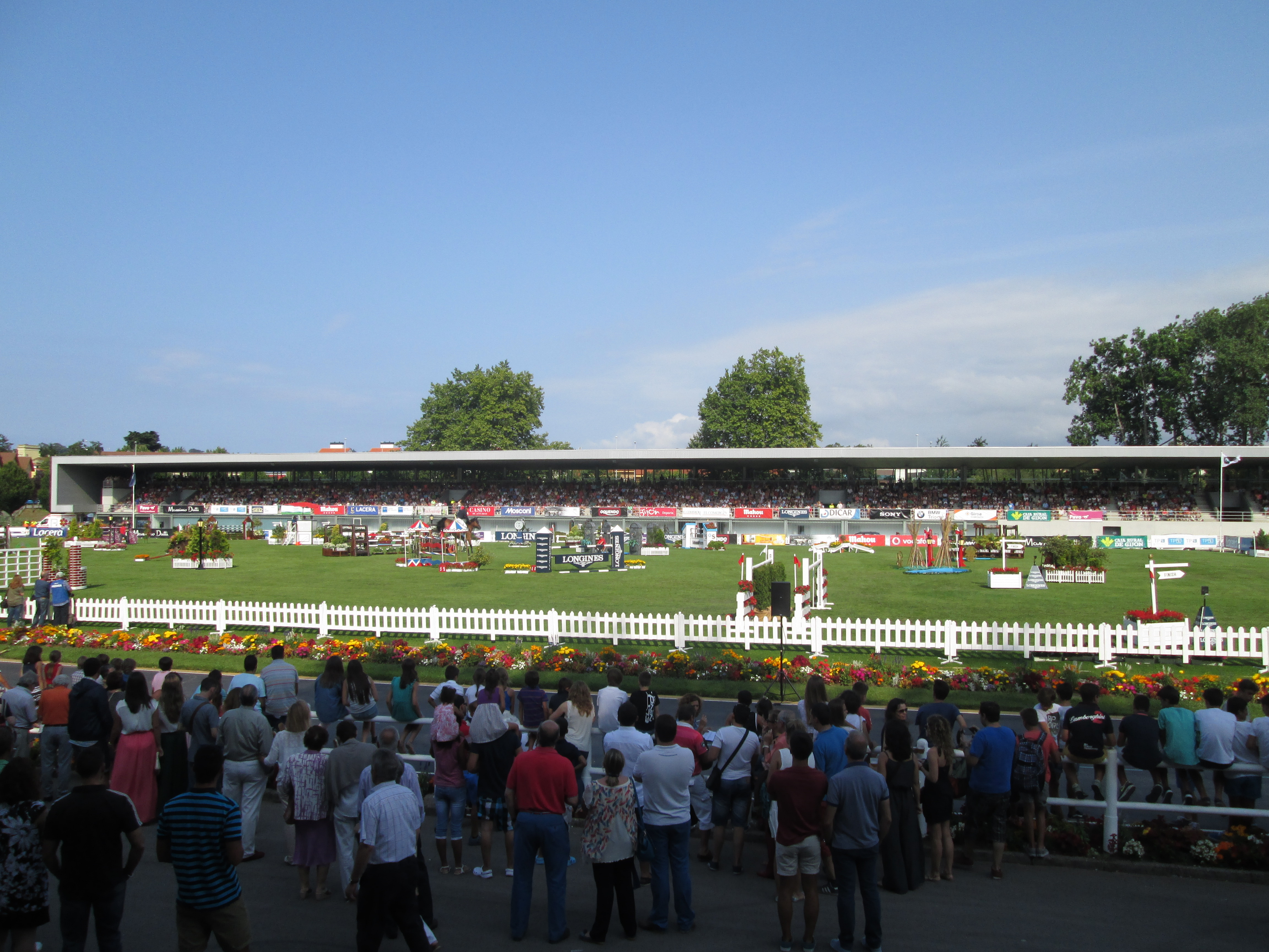 Hipódromo de Las Mestas, during the CSIO Gijón 2014.